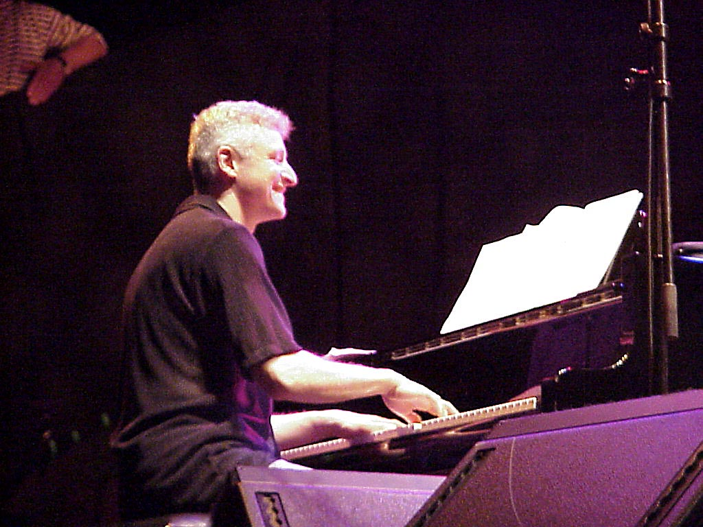 David Kiosky at the Brecker Brothers concert, Munich/Germany, July 2001